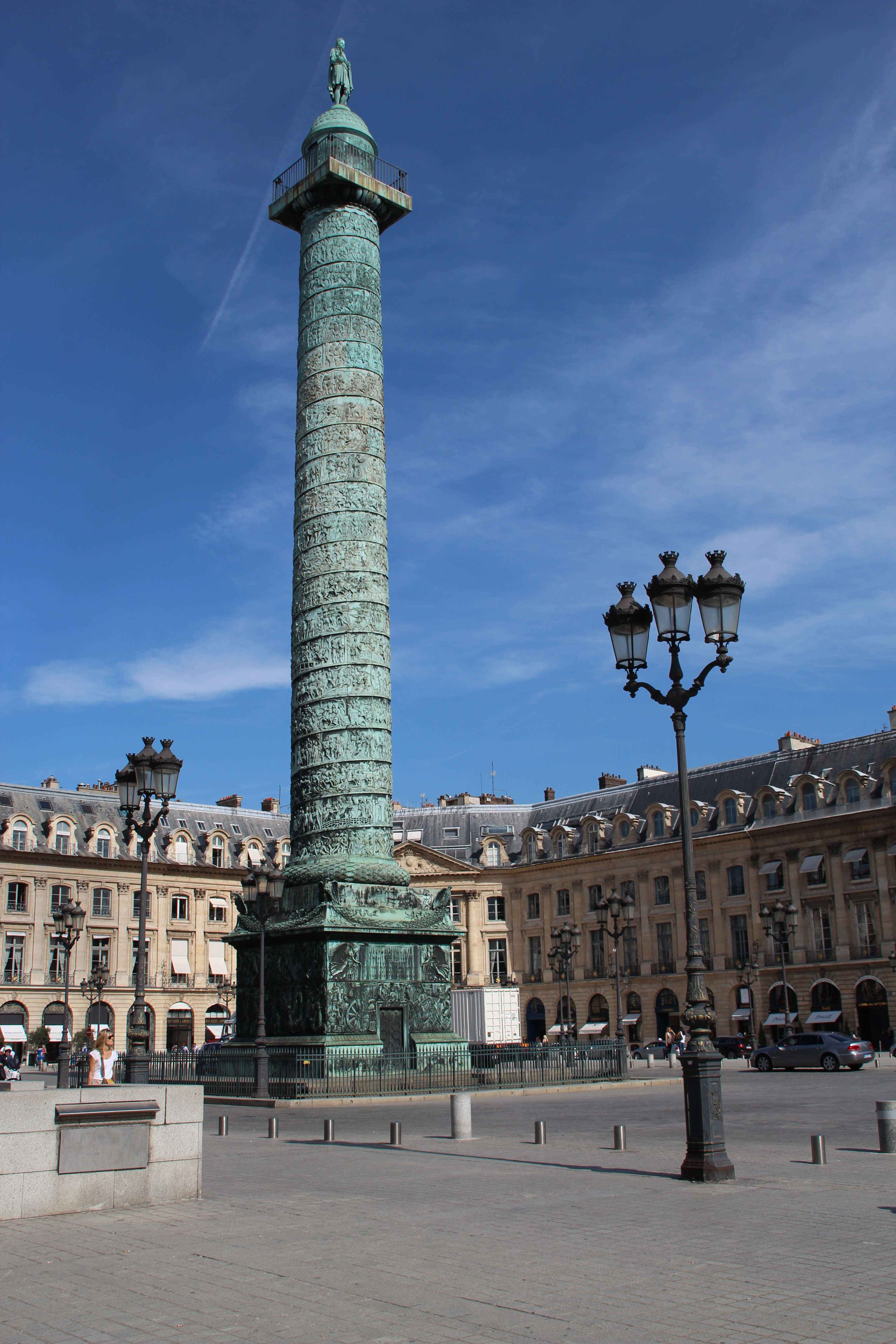 Colonne Vendôme, Vendôme place in Paris